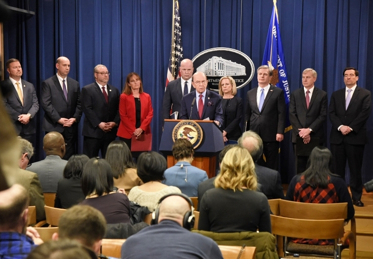 Acting U.S. Attorney General Matthew Whitaker, Homeland Security Secretary Kirstjen Nielsen, Commerce Secretary Wilbur Ross, FBI Director Christopher Wray, U.S. Attorney Richard P. Donoghue for the Eastern District of New York, First Assistant U.S. Attorney Annette Hayes for the Western District of Washington, Assistant Attorney General Brian A. Benczkowski of the Justice Department's Criminal Division and Assistant Attorney General John C. Demers of the National Security Division announced the 23 charges (including Banking and Financial Fraud, Money Laundering, Wire Fraud, Conspiracy to Defraud the United States, Theft of Trade Secret and Technology, Offered Bonus to Workers who Stole Confidential Information from Companies Around the World, Obstruction of Justice and Sanctions Violations, etc.) against Huawei, its CFO Wanzhou Meng, Huawei Device USA Inc. and Huawei’s Iranian Subsidiary Skycom. Acting Attorney General Whitaker Announces National Security-Related Criminal Charges Against Chinese Telecommunications Conglomerate Huawei Acting Attorney General Whitaker Announces National Security-Related Criminal Charges Against Chinese Telecommunications Conglomerate Huawei Chinese Telecommunications Device Manufacturer and its U.S. Affiliate Indicted for Theft of Trade Secrets, Wire Fraud, and Obstruction Of Justice Chinese Telecommunications Conglomerate Huawei and Huawei CFO Wanzhou Meng Charged With Financial Fraud